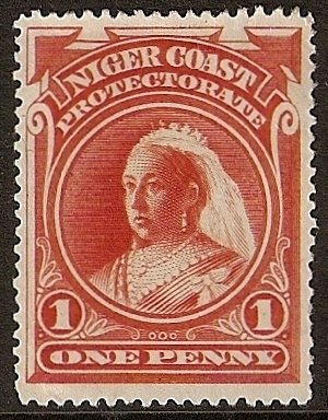 A 1 pence stamp of Niger Coast Protectorate, Scott catalog No.44